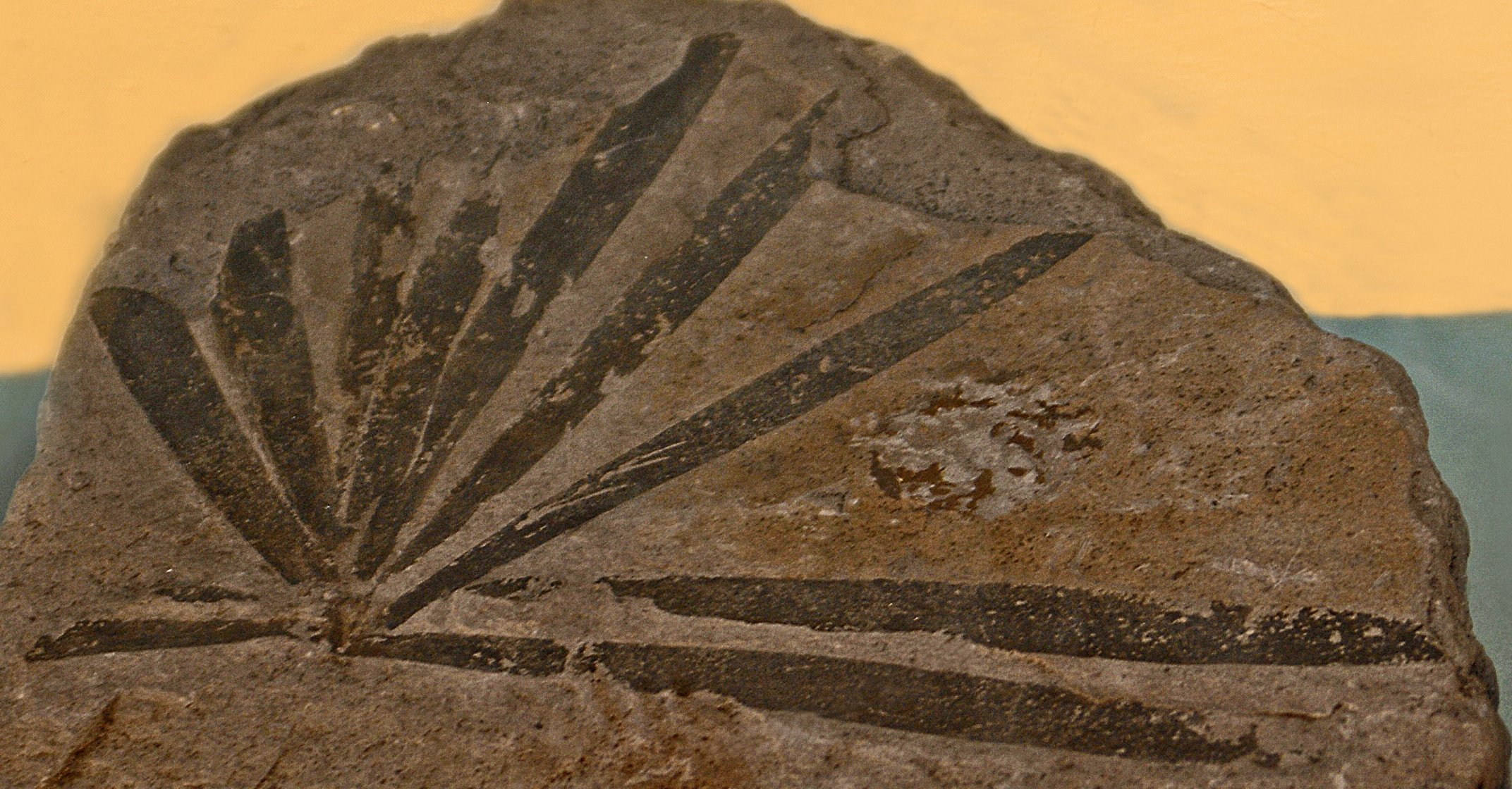 crop of file in file name